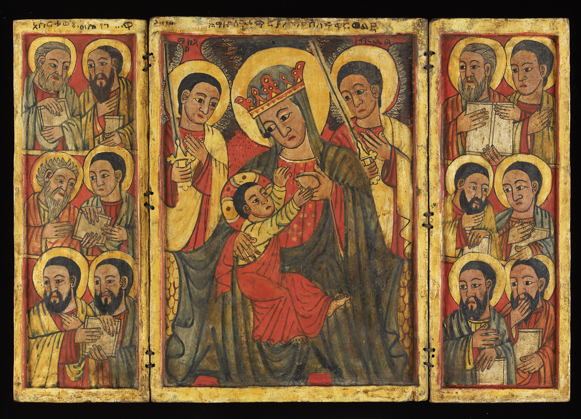 An Ethiopian Orthodox painting on wood of the Virgin Mary nursing the infant Christ. The twelve Apostles are depicted on the opposing side panels. Dating places this work in the middle or second half of the 15th century.